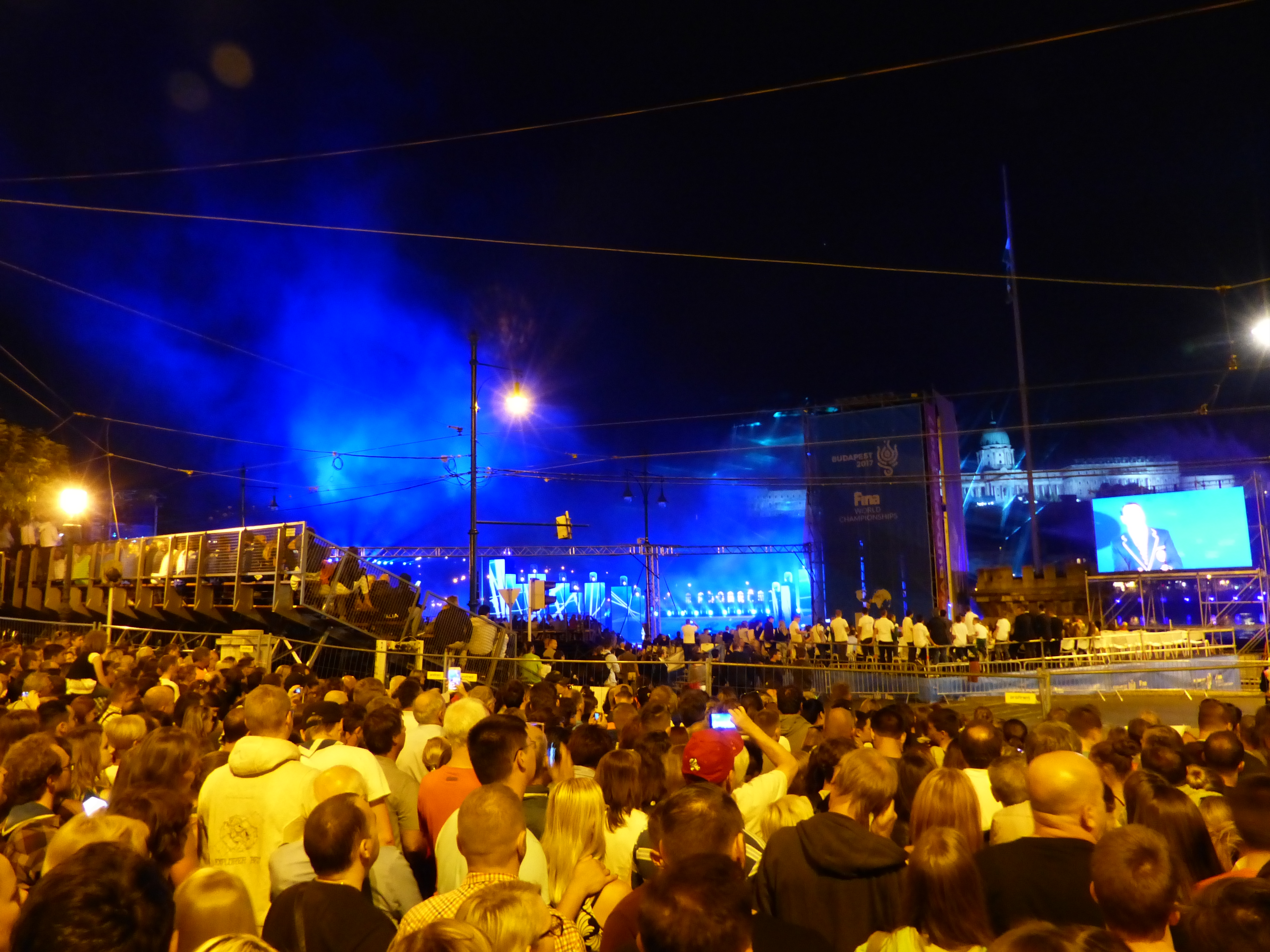 2017 World Aquatics Championships Opening Ceremony. Bridgehead Lánchíd, Pest side. Teken on Friday, the 14th of July, 2017.